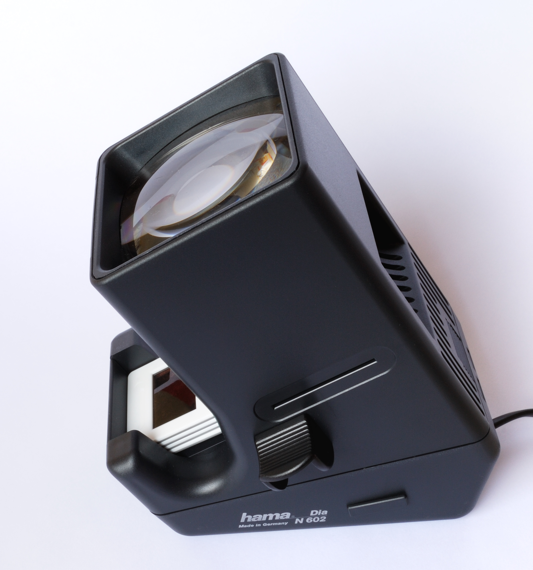 Diascope for 5 x 5 cm slides, with an exchange button and a bay for 10 - 15 slides. It provides a 3-fold magnification, a 15 watt lamp, a power cord and a 76 x 76 mm panorama lens. Type Hama N602.